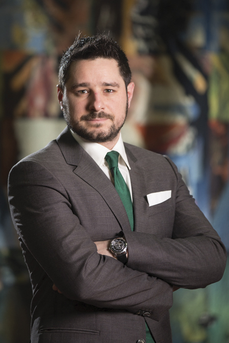 др Марко Кнежевић